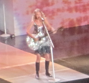 Taylor Swift performs Our Song during the Fearless Tour